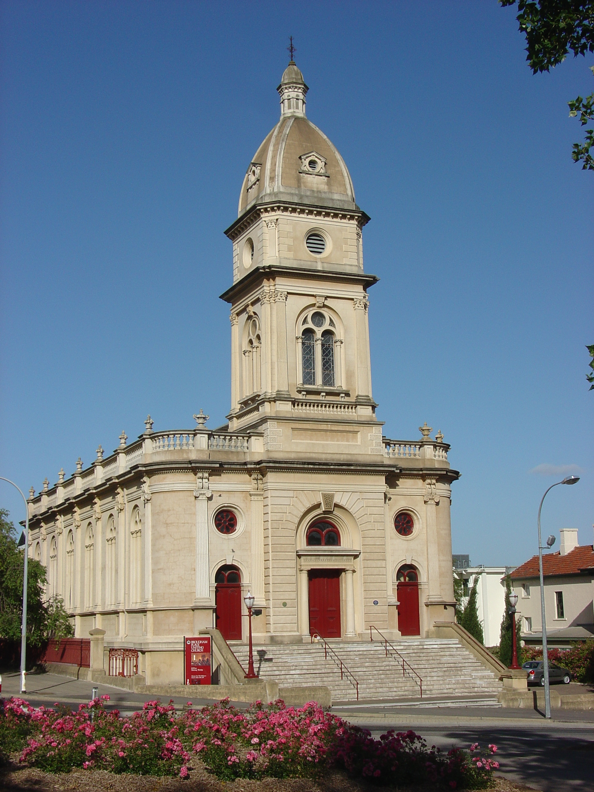 Brougham Place Uniting Church, Brougham Place, North Adelaide, Australia taken from the east showing main entrance and marble steps.